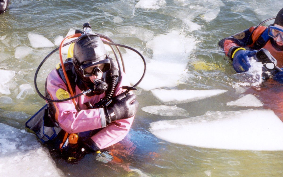 Drysuits are warm enough to allow diving in icy water